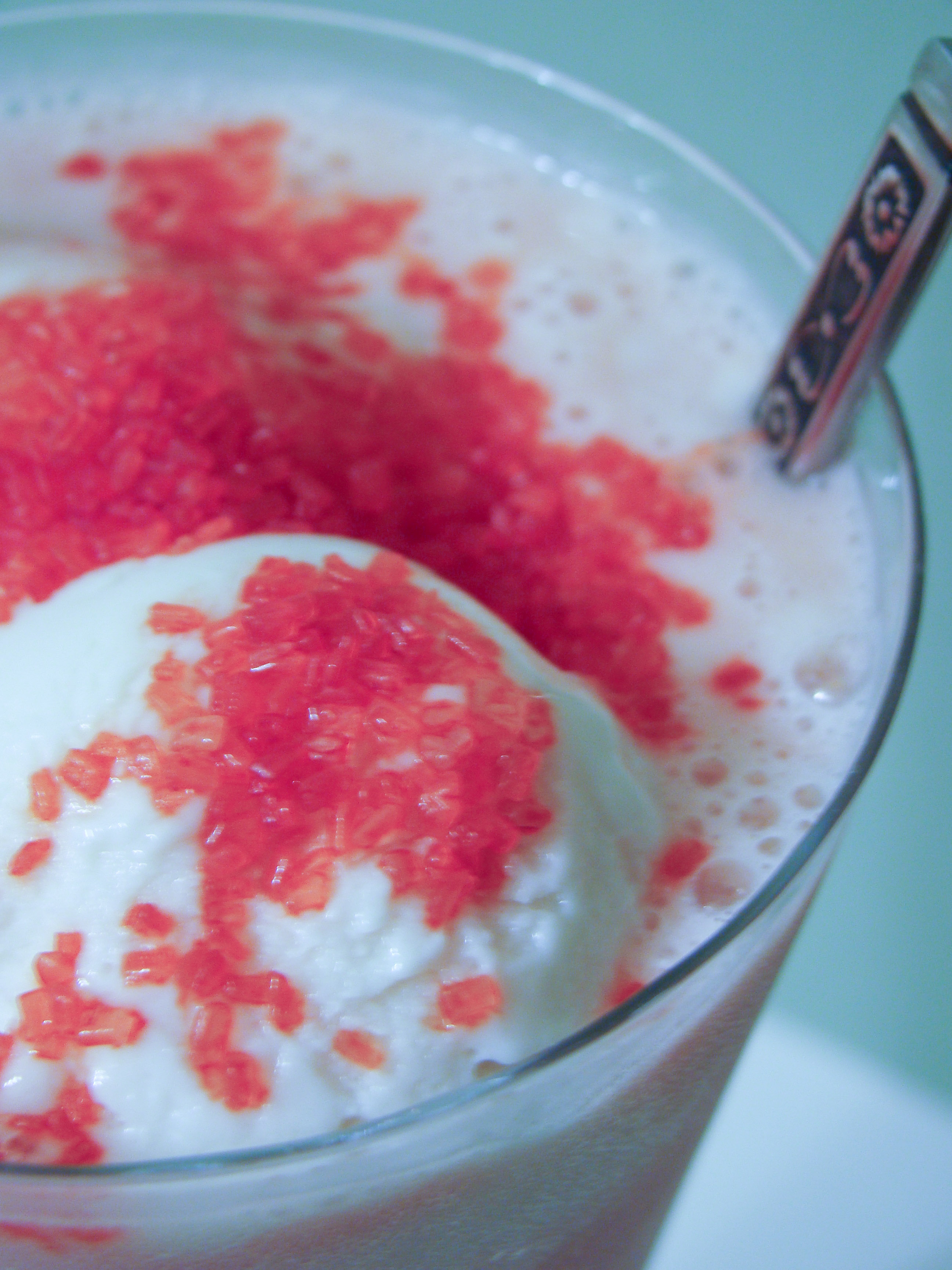 I had some cherries left over from last weekend's cake along with some vanillabean and vanilla soy kreme so I combined that with some oat milk to create this yummy malt. It was fabulous.